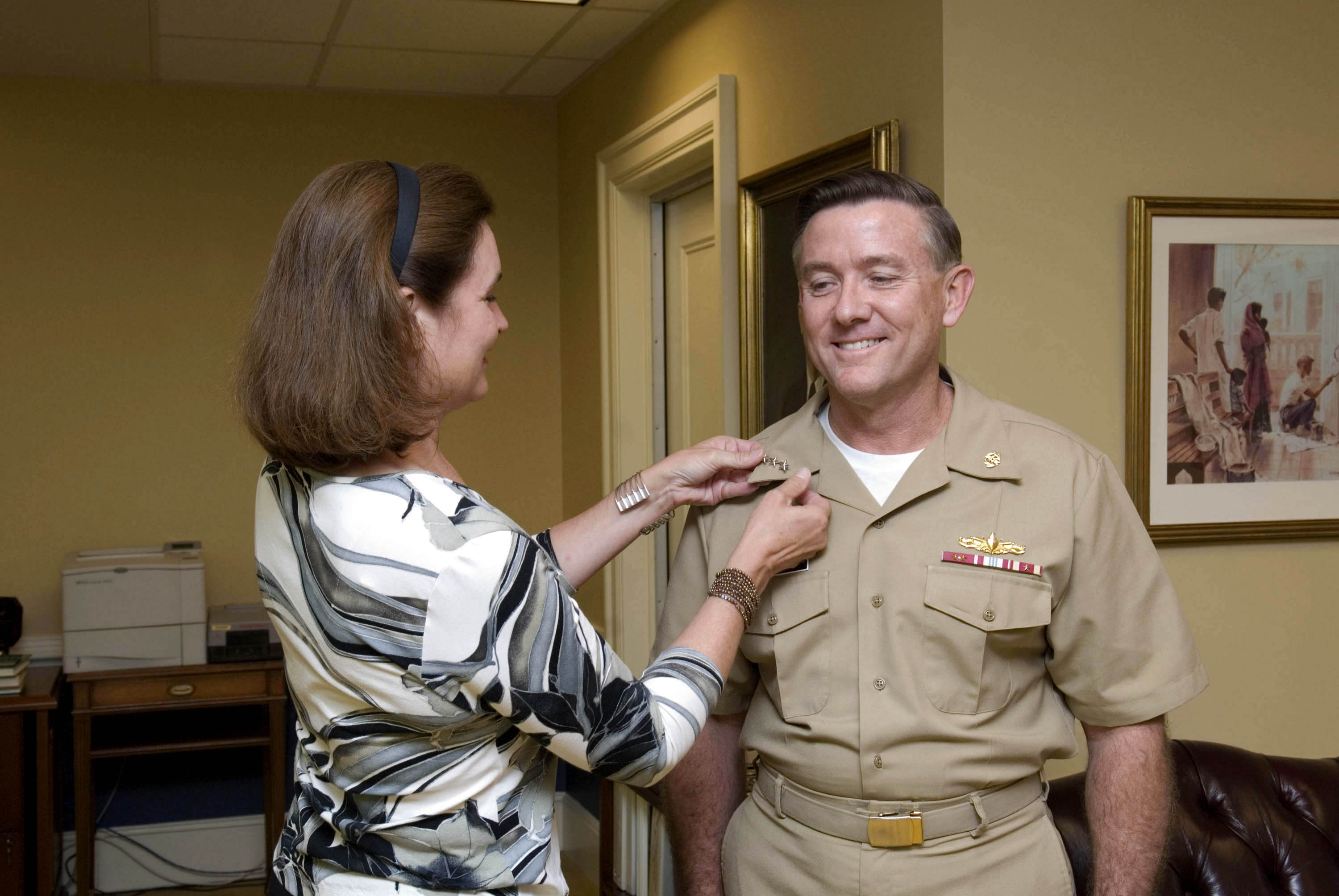 WASHINGTON (Aug. 4, 2008) Vice Adm. Bruce MacDonald, Navy Judge Advocate General (JAG), is pinned by his wife, Karen, during a promotion ceremony at the Pentagon. MacDonald is the first vice admiral to hold the position of Navy JAG. The 2008 National Defense Authorization Act advanced the position of the JAG in the Navy, Army, and Air Force to the grade of a three-star general or flag officer. (U.S. Navy photo by Mass Communication Specialist 1st Class Tiffini M. Jones/Released)